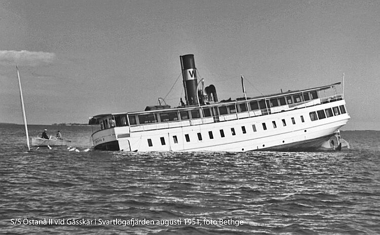 Swedish steam ship Östanå II sunk in August 1951.